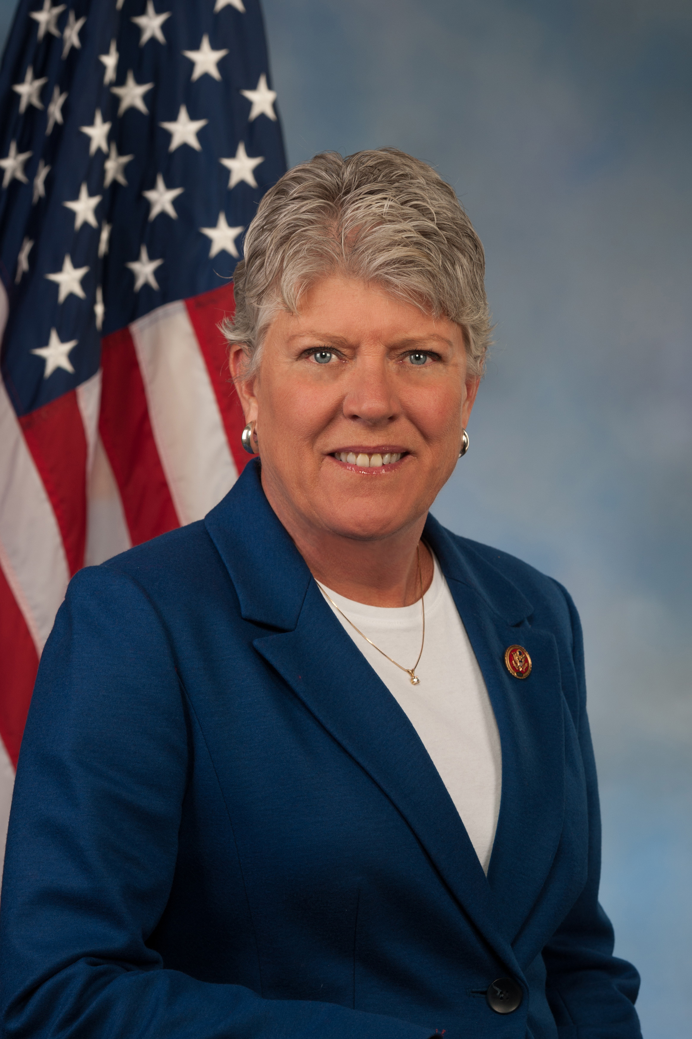 Julia Brownley official photo